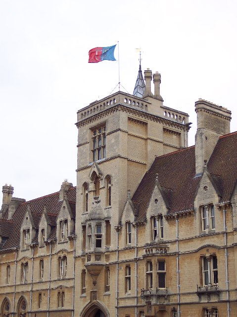 Balliol College, Oxford. The College was founded around 1263 by John de Balliol under the guidance of the Bishop of Durham. After his death in 1269, his widow, Dervorguilla of Galloway, made arrangements to ensure the permanence of the College. She provided capital, and in 1282, formulated the College Statutes, documents that survive to this day * Text courtesy of Wikipedia Balliol College, Oxford *